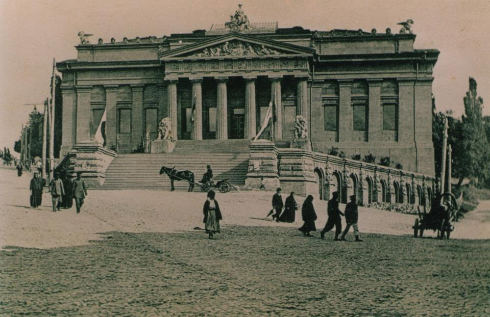 Kyiv City Museum of Antiques and Art.